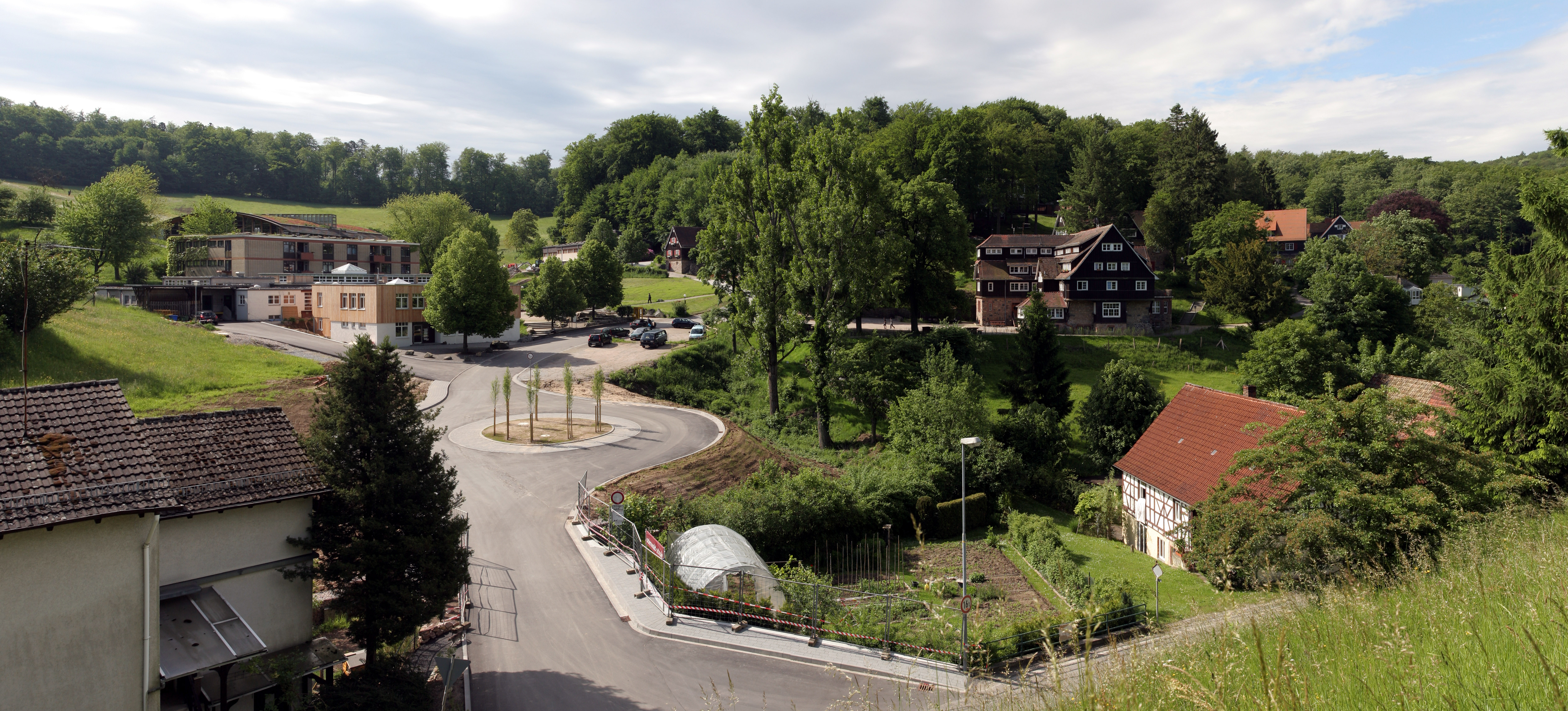 The Odenwaldschule in the Ober-Hambach quarter of Heppenheim (Hesse, Germany).